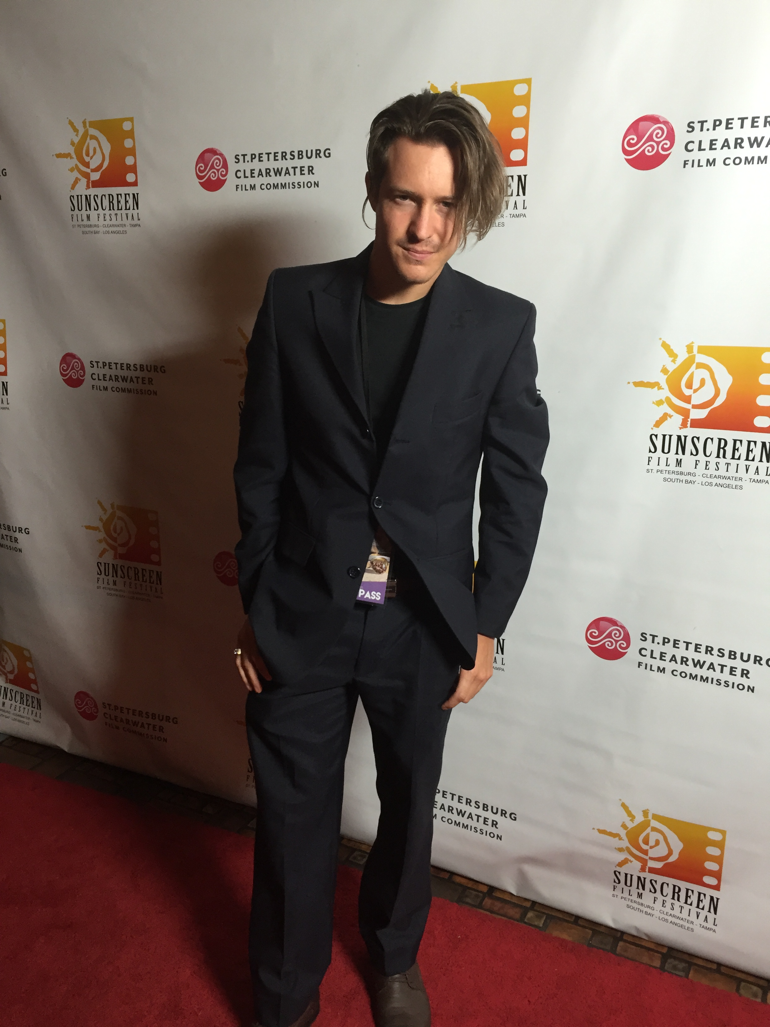 Edwin Gagiano at Sunscreen Film Festival in St. Petersburg, FL, April 28, 2016.